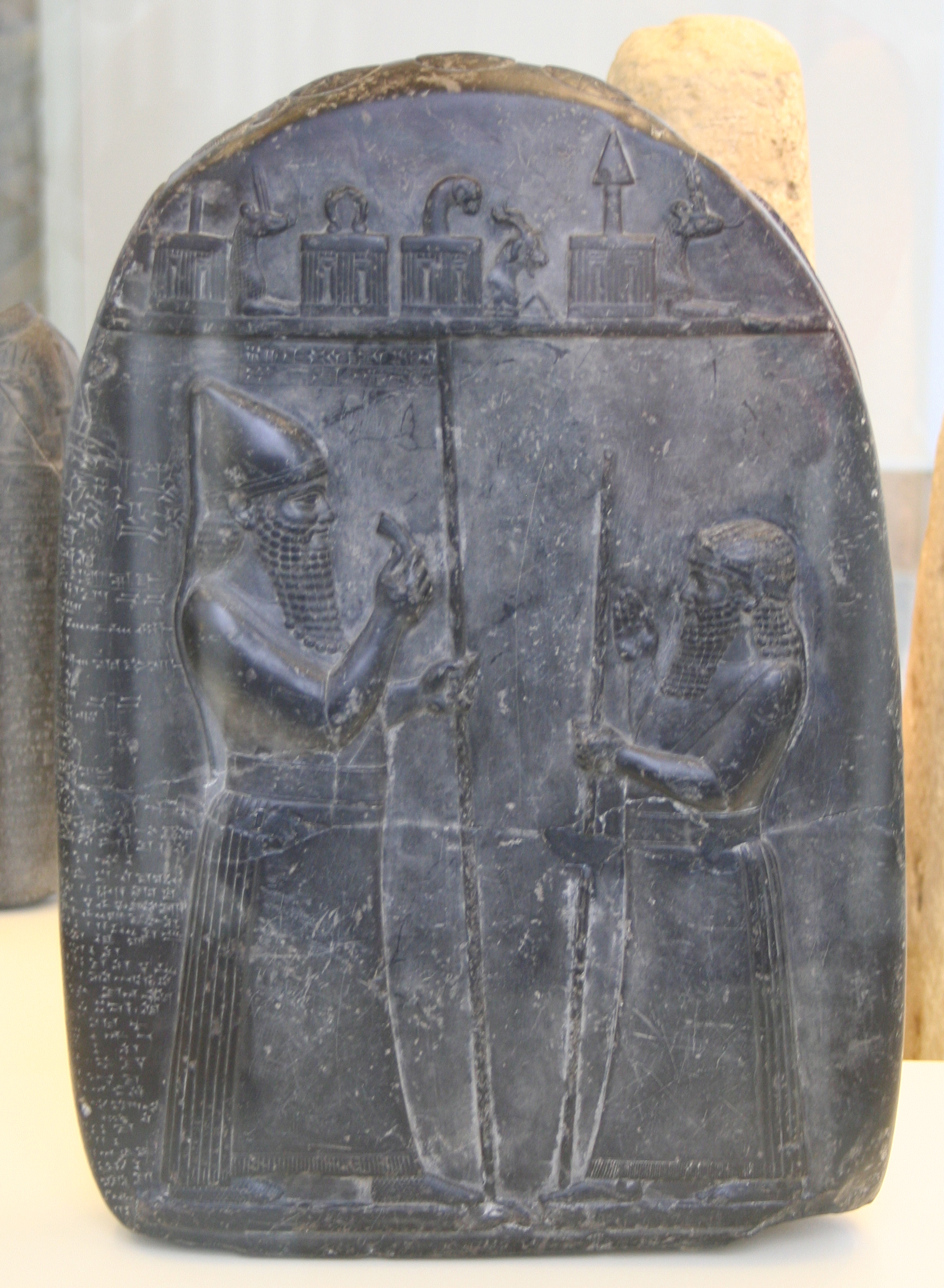 Vorderasiatisches Museum (Near East Museum), Berlin. Kudurru of the babylonian king Marduk-apla-idinna II/Merodach-baladan.